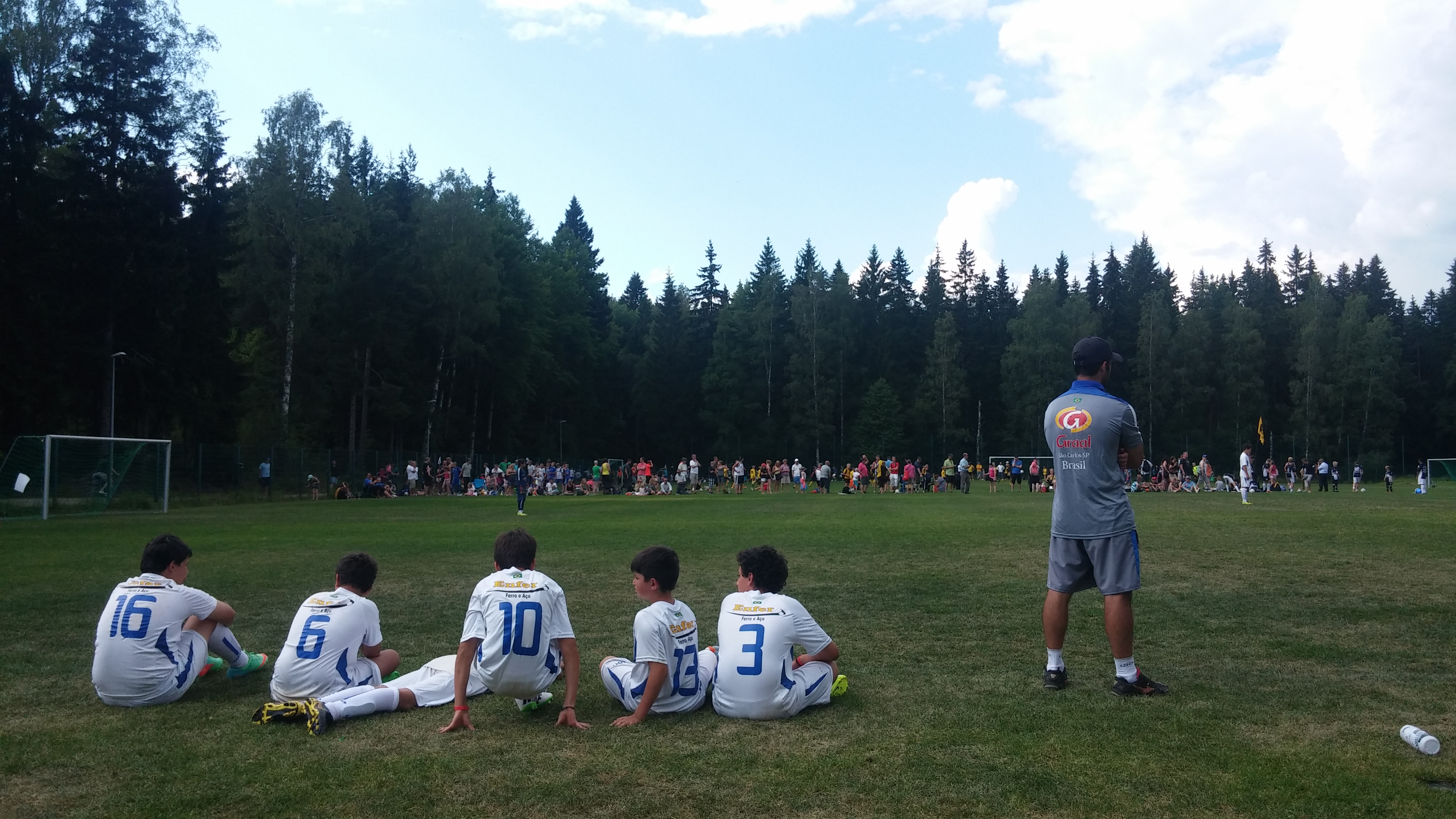 The Helsinki Cup is an international youth football tournament, held each year in Helsinki, Finland.